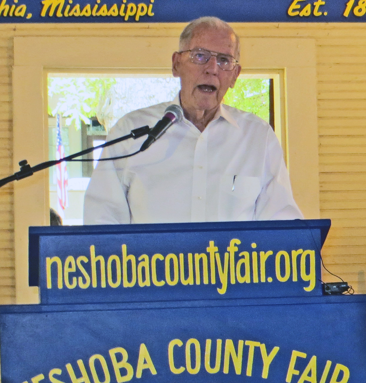 Former Governor Wiliam Winter